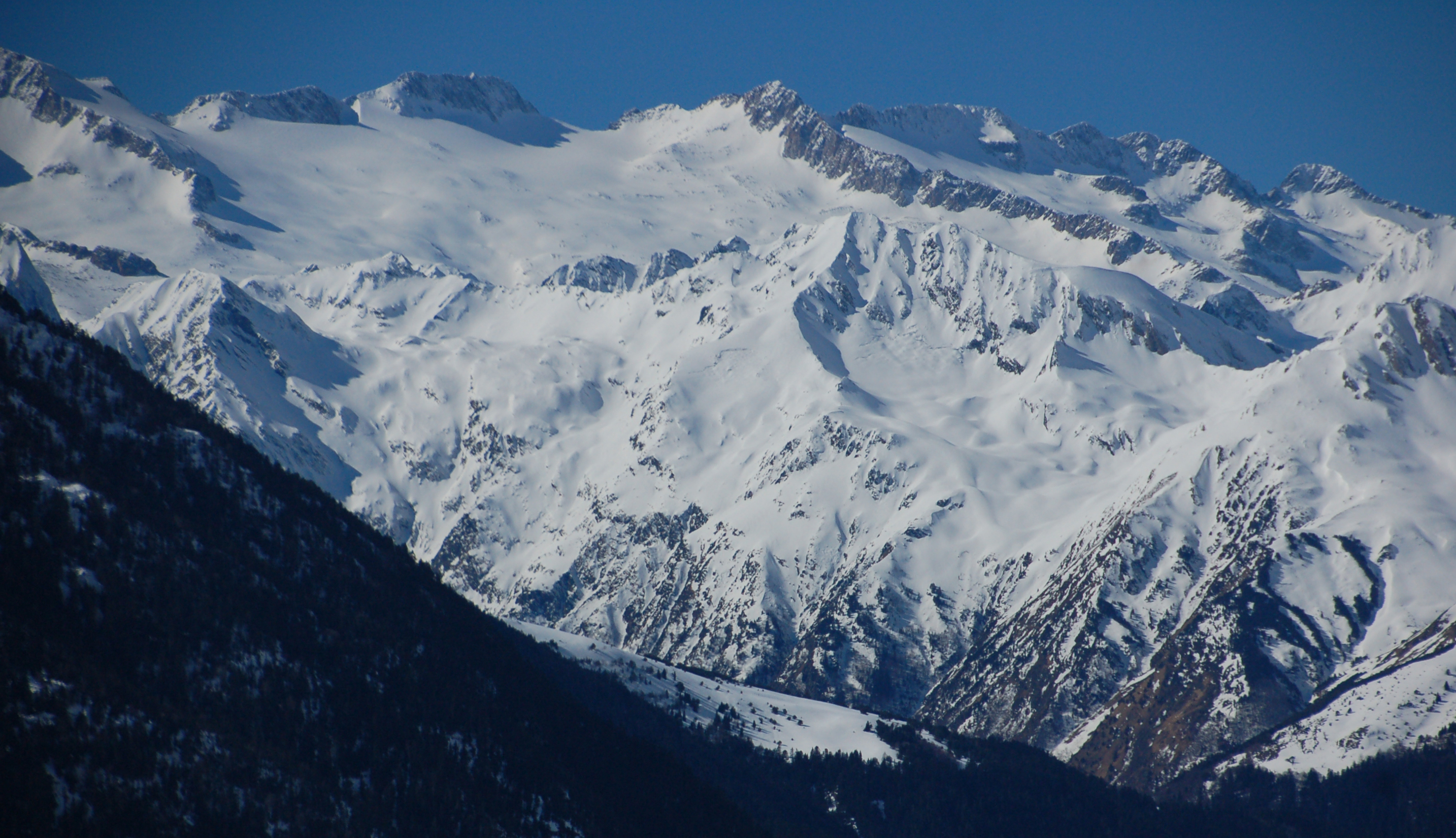 The view of Maladeta from the Vall d´Aran